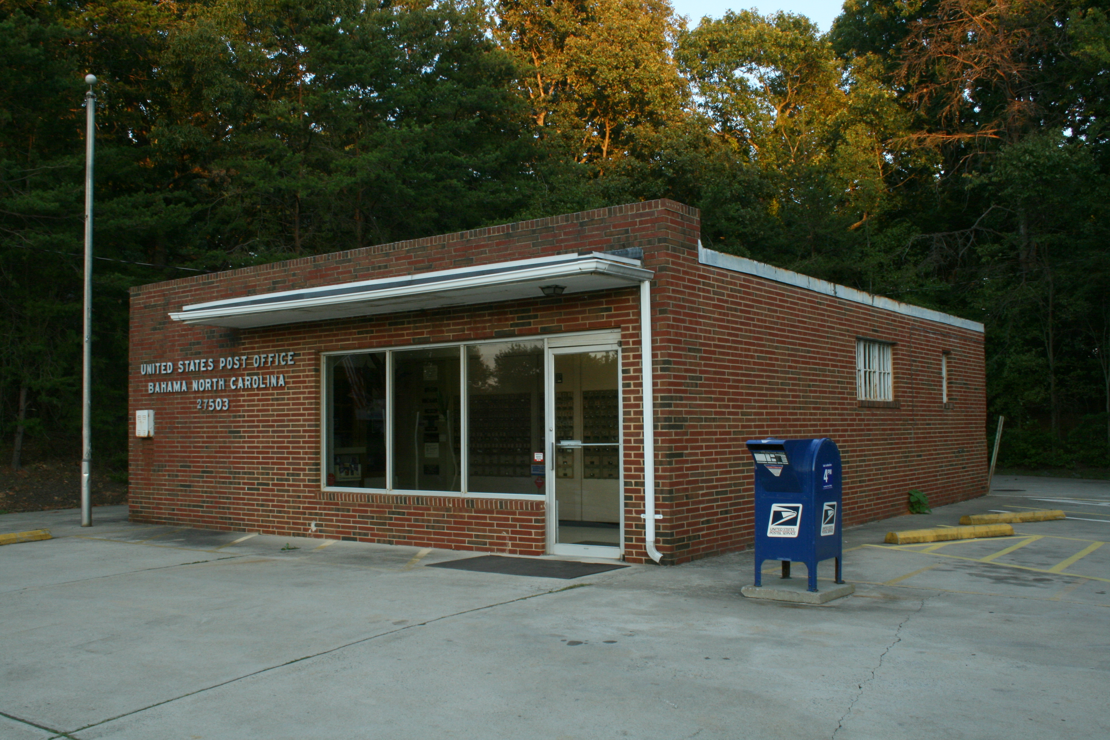 United States Post Office (zip code 27503) at 1420 Bahama Road in Bahama, North Carolina.